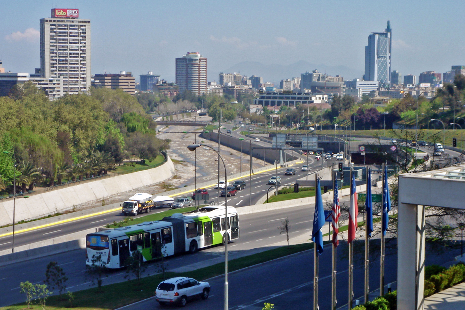 Transantiago bus on the electronic toll Costanera Norte freeway, Santiago, Chile